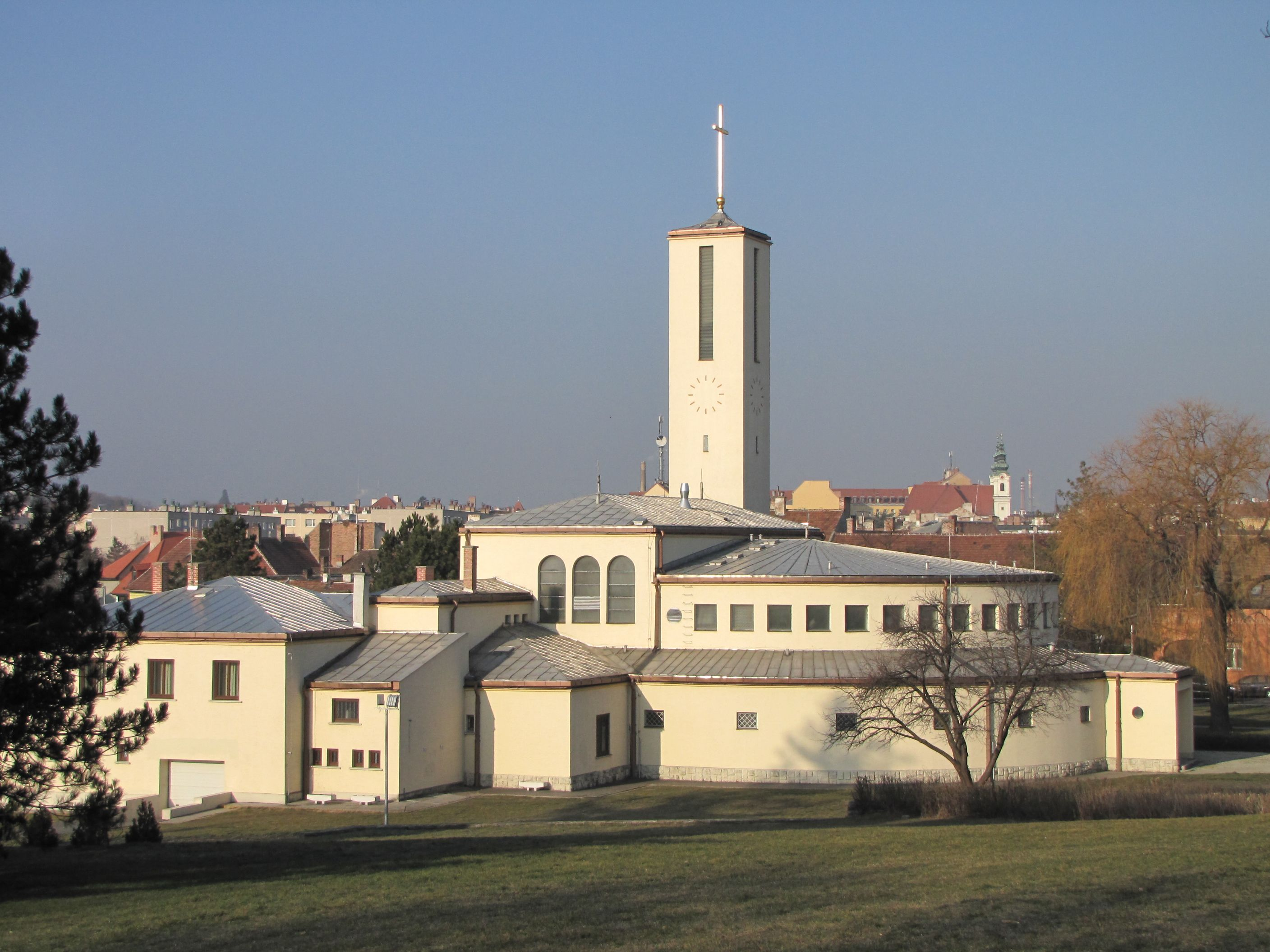 Sopron, Roman Catholic Church of St Stephen. Architect: Nándor Körmendy, 1941